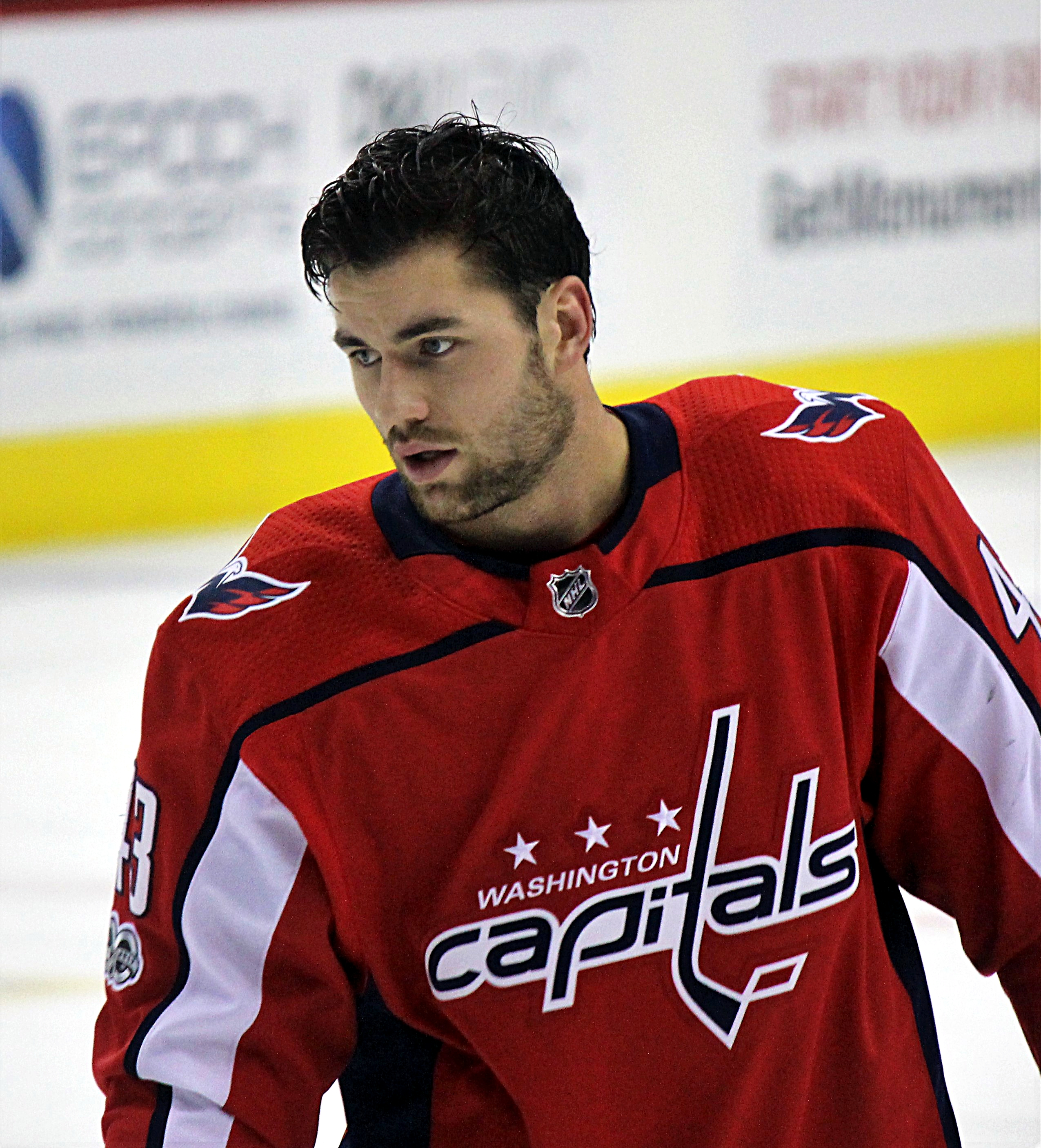 Washington Capitals forward Tom Wilson warms up prior to a game against the Pittsburgh Penguins, November 10, 2017, at Capital One Arena in Washington, D.C.